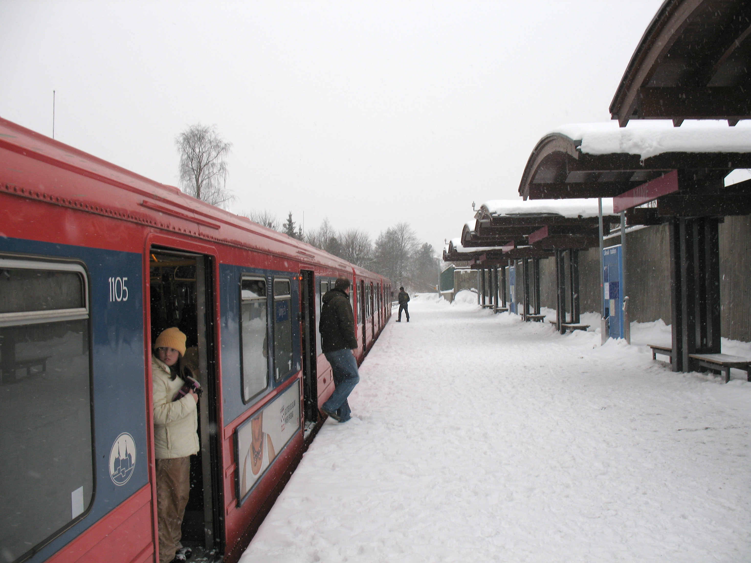 The Ullevål stadion Oslo subway station.